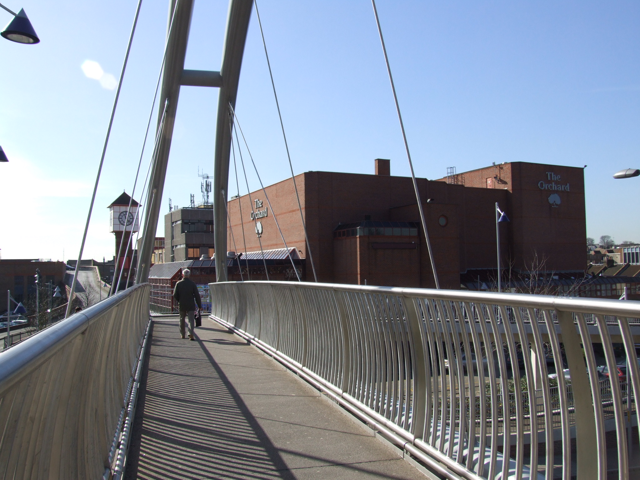 The Orchard theatre in Dartford from the bridge leading to the Civic Centre.